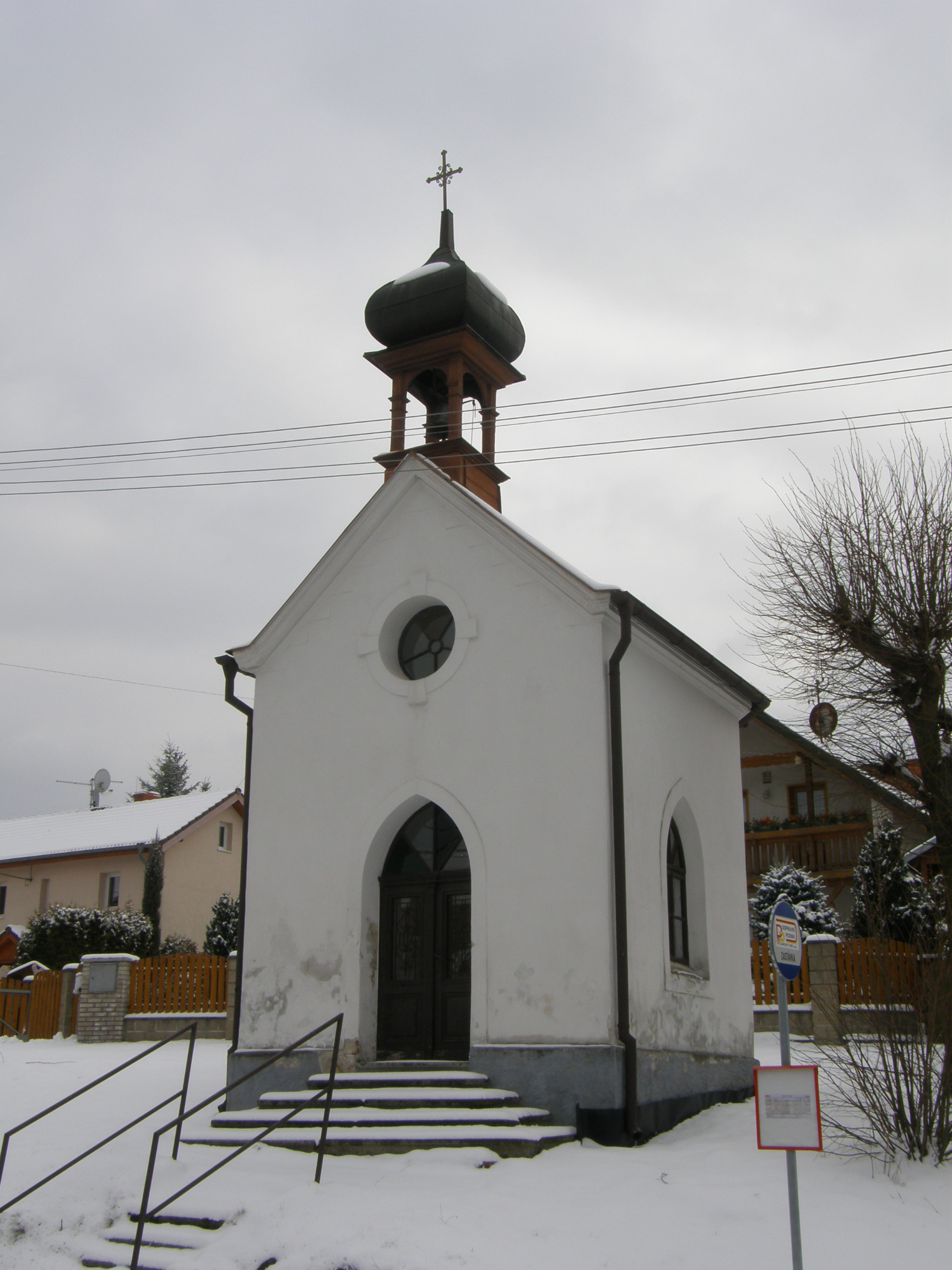 St. Anna chapel in Dalovice-Vyskoká, district Karlovy Vary, Czech republic